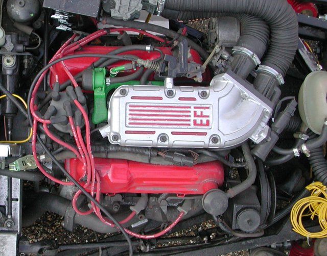 Ford Cologne V6 engine from the top. This is a 2.9 model, photographed by Stephen Gusterson, uploaded to Wikipedia by User:Morven. Permission letter follows: From: steve gusterson To: Matt Brown Date: Sun, 29 Aug 2004 13:53:58 +0100 Subject: RE: Pictures of Ford "Cologne" V6 Hi no problems - you can use the pictures. be nice to see it on wikipedia cheers steve